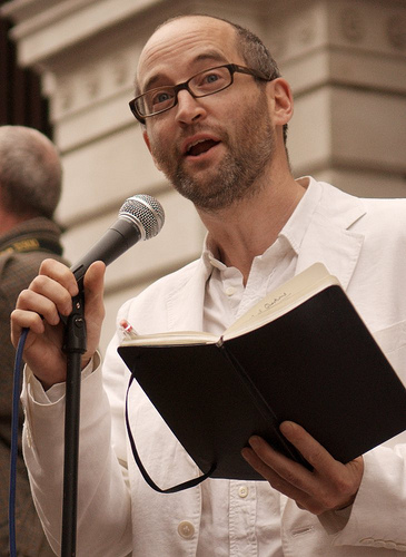 Scientist Mark Miodownik at the Science is Vital rally in 2010.